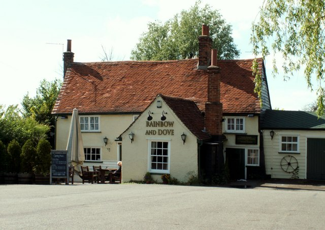 'Rainbow And Dove' public house, Hastingwood, Essex. This pub is quite close to junction 7 of the M11. It's an attractive pub and very popular.